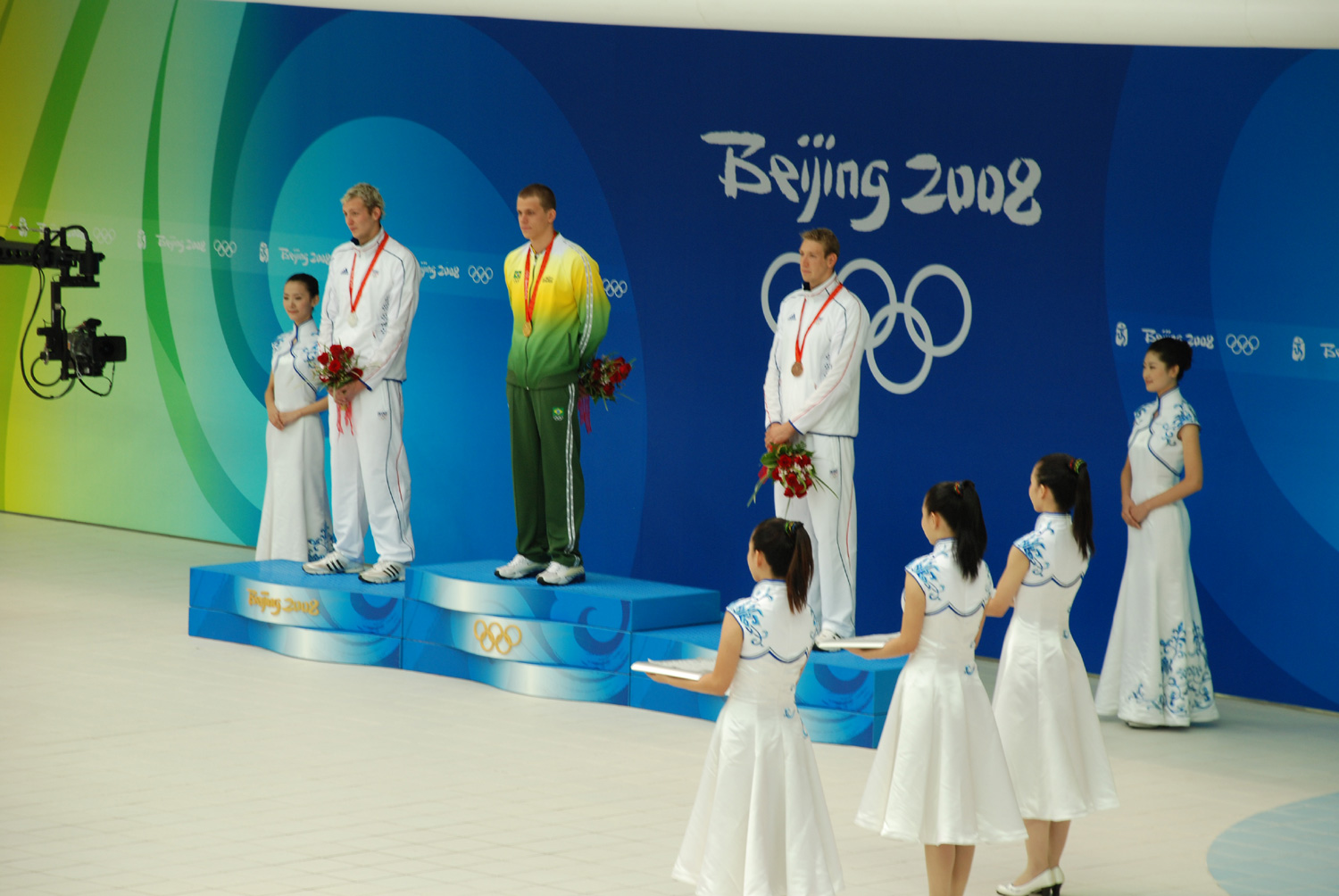 Amaury Leveaux (silver), Cesar Cielo-Filho (gold), Alain Bernard (bronze) on the podium of the 50 meters at the Watercube, Beijing, August 16, 2008